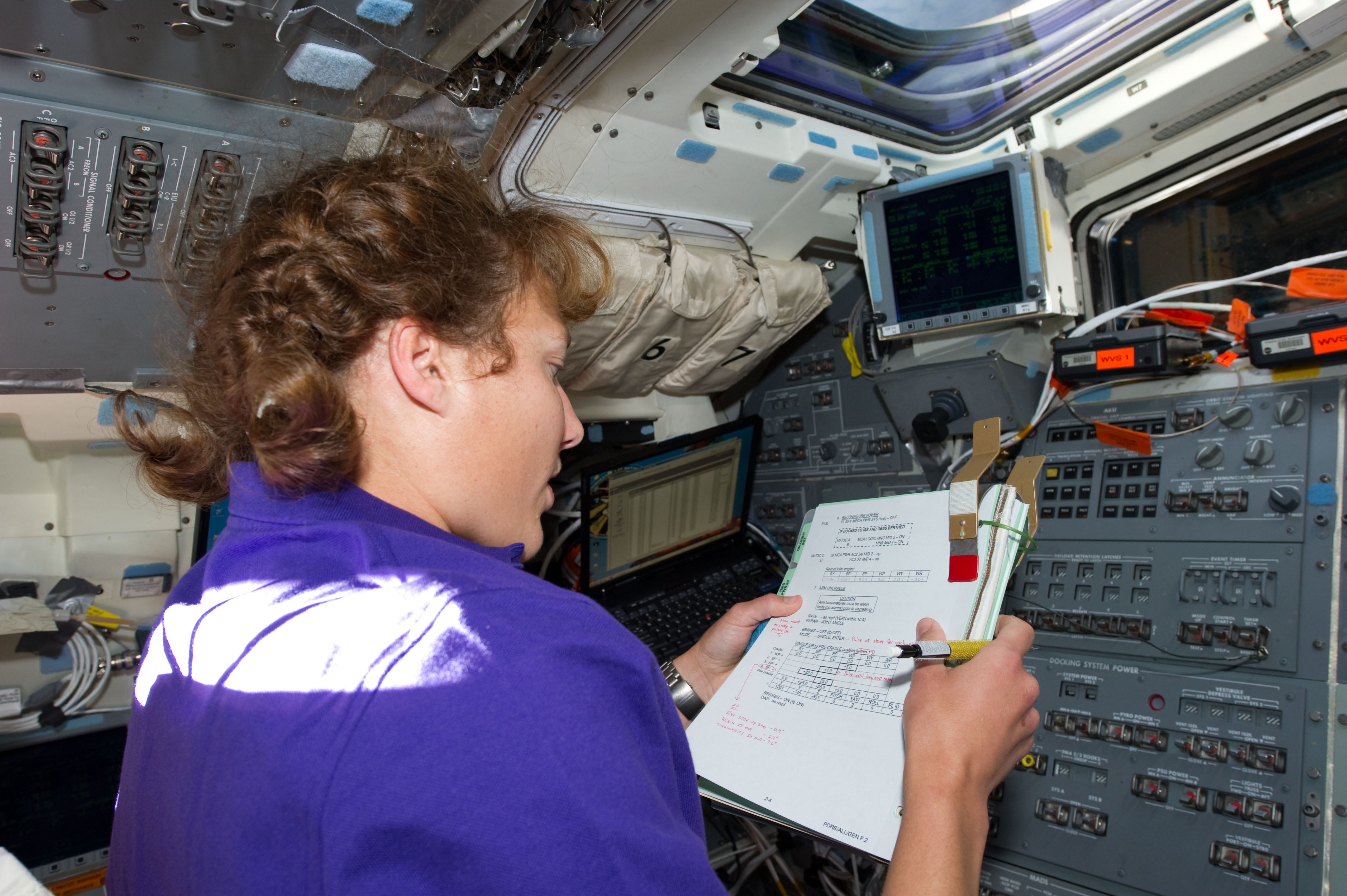 NASA astronaut Dorothy Metcalf-Lindenburger, STS-131 mission specialist, reads a checklist on the aft flight deck of space shuttle Discovery during flight day two activities.